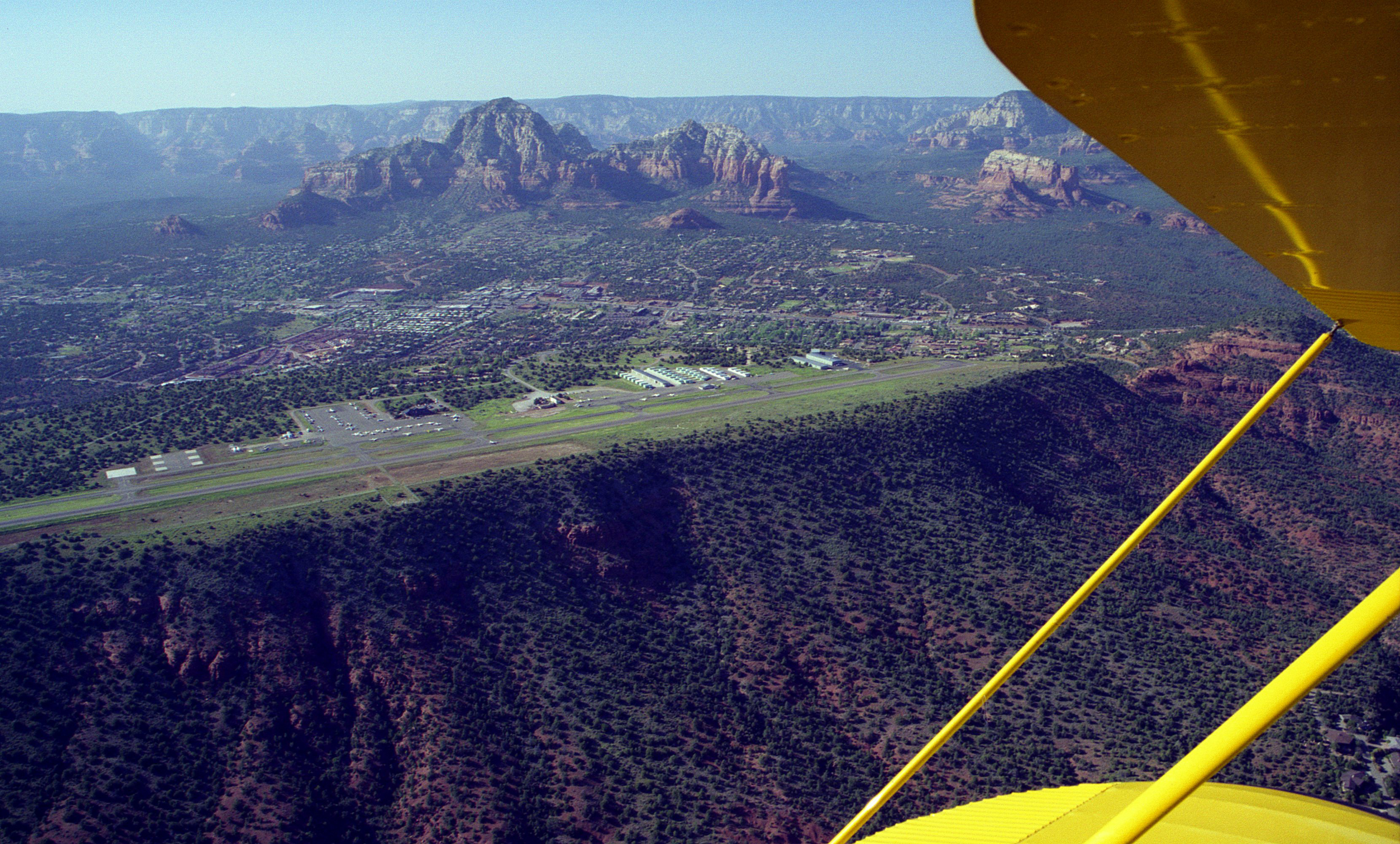 Approaching Sedona Airport from the South.